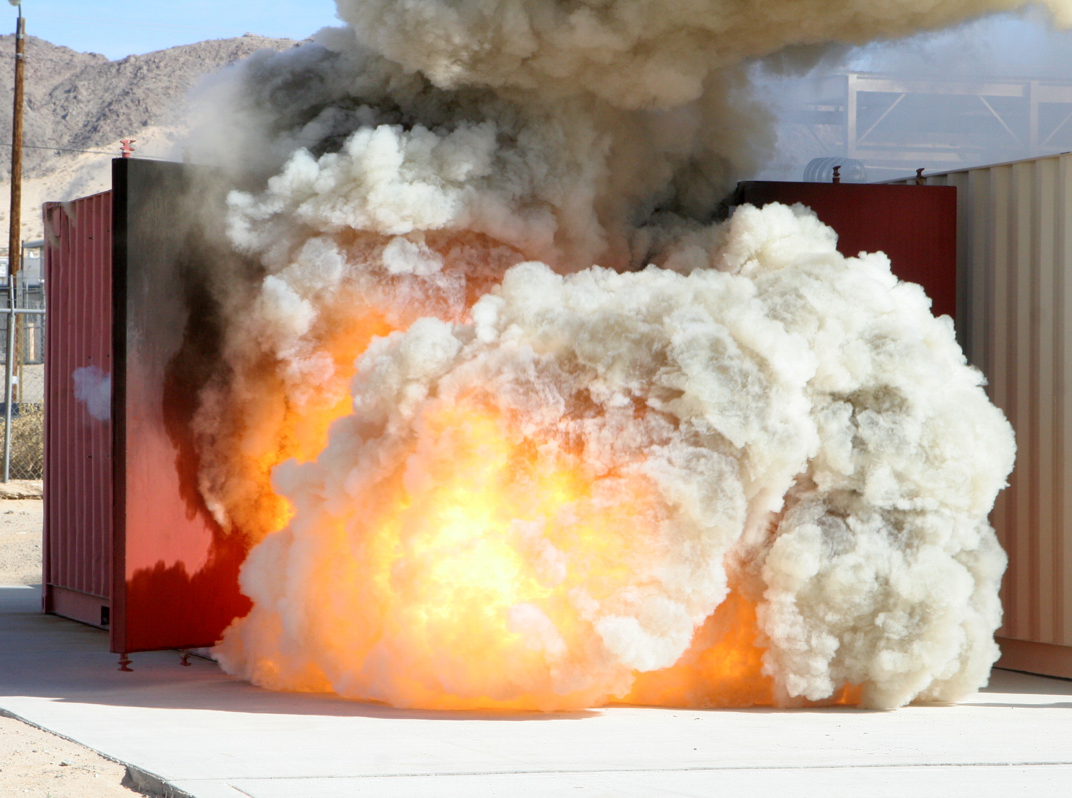 A demonstration of a backdraft during live-fire training Saturday.